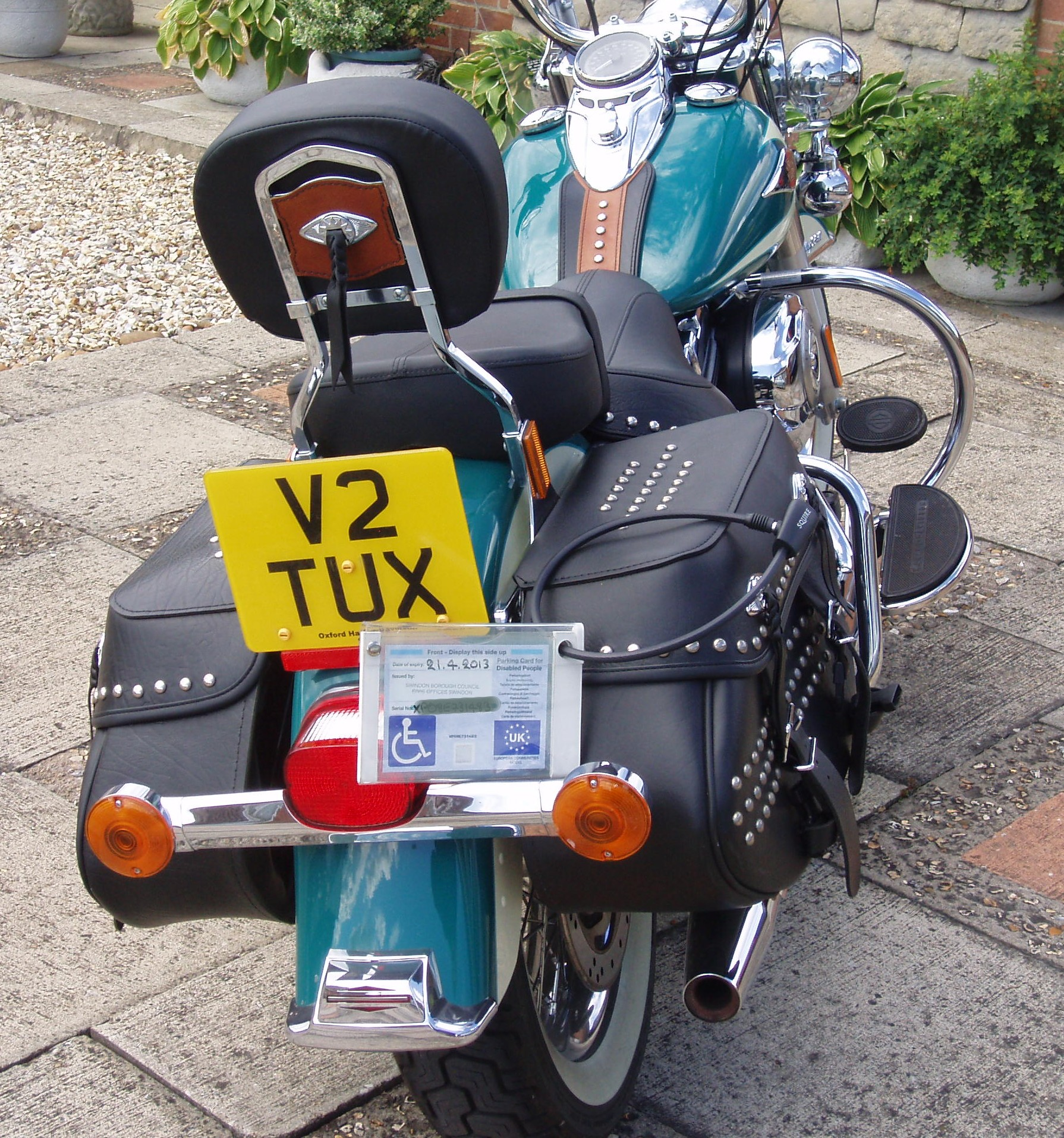 Disabled Parking Badge on Harley-Davidson